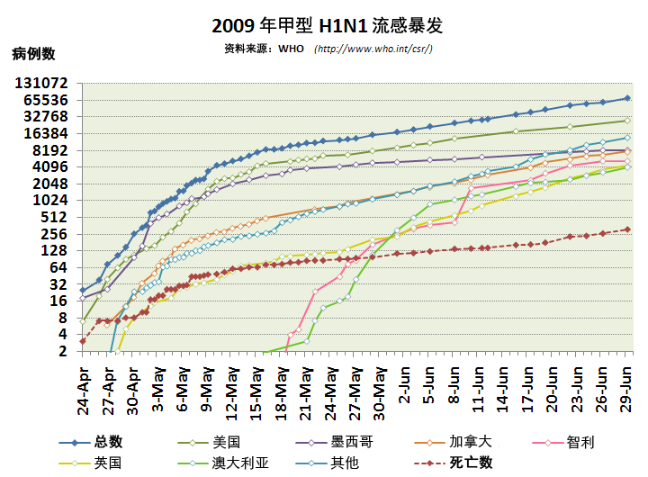 Development of H1N1 influenza cases in 2009. Semi-logarithmic version. Source: WHO figures.